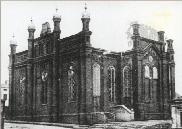 Synagogue in Brzeziny